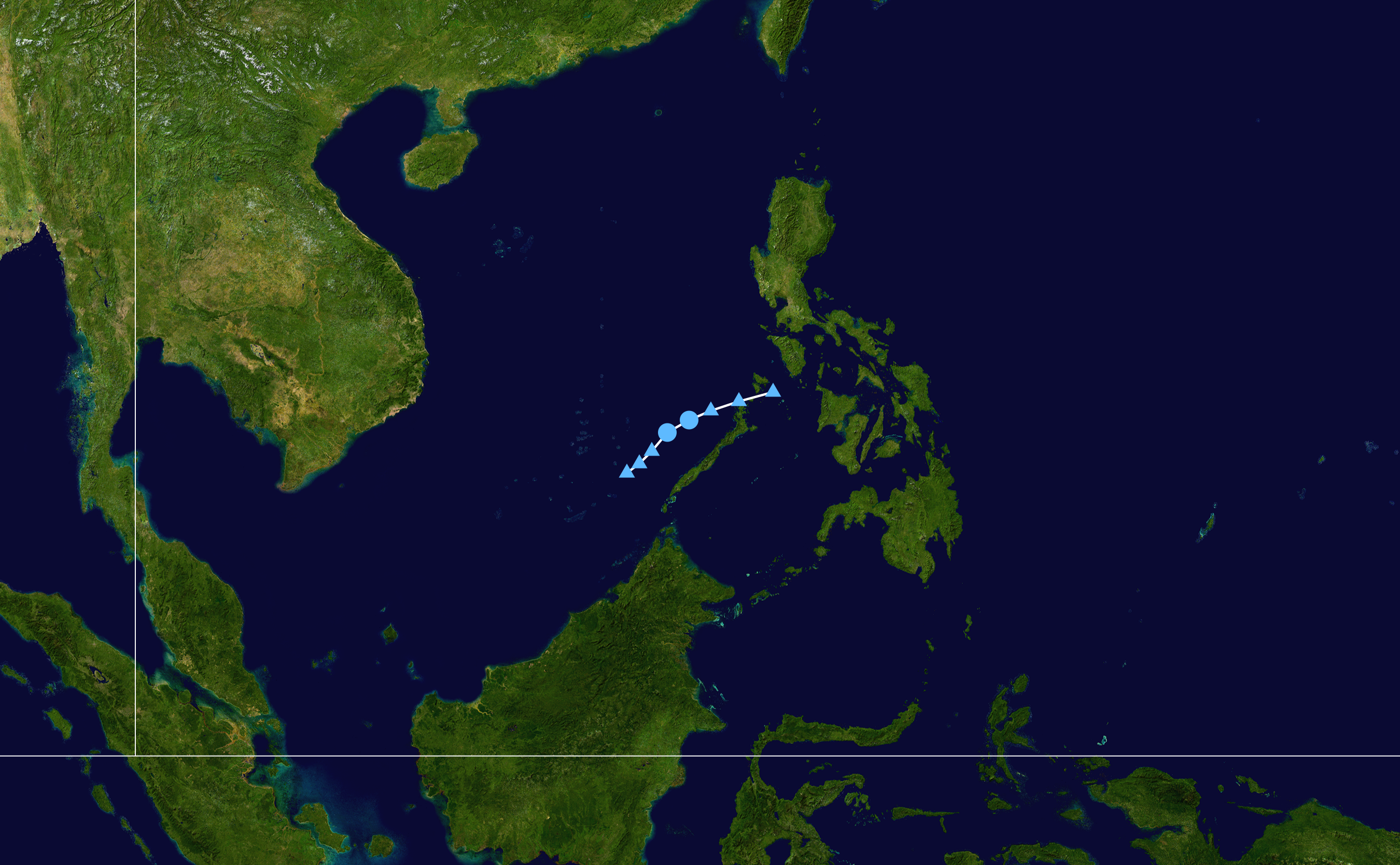 Track map of Tropical Depression 26W of the 2017 Pacific typhoon season. The points show the location of the storm at 6-hour intervals. The colour represents the storm's maximum sustained wind speeds as classified in the Saffir–Simpson scale (see below), and the shape of the data points represent the nature of the storm, according to the legend below. Saffir–Simpson scale Tropical depression≤38 mph≤62 km/h Category 3111–129 mph178–208 km/h Tropical storm39–73 mph63–118 km/h Category 4130–156 mph209–251 km/h Category 174–95 mph119–153 km/h Category 5≥157 mph≥252 km/h Category 296–110 mph154–177 km/h Unknown Storm type Tropical cyclone Subtropical cyclone Extratropical cyclone / Remnant low / Tropical disturbance